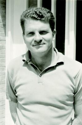 Photo of Edoardo Vesentini